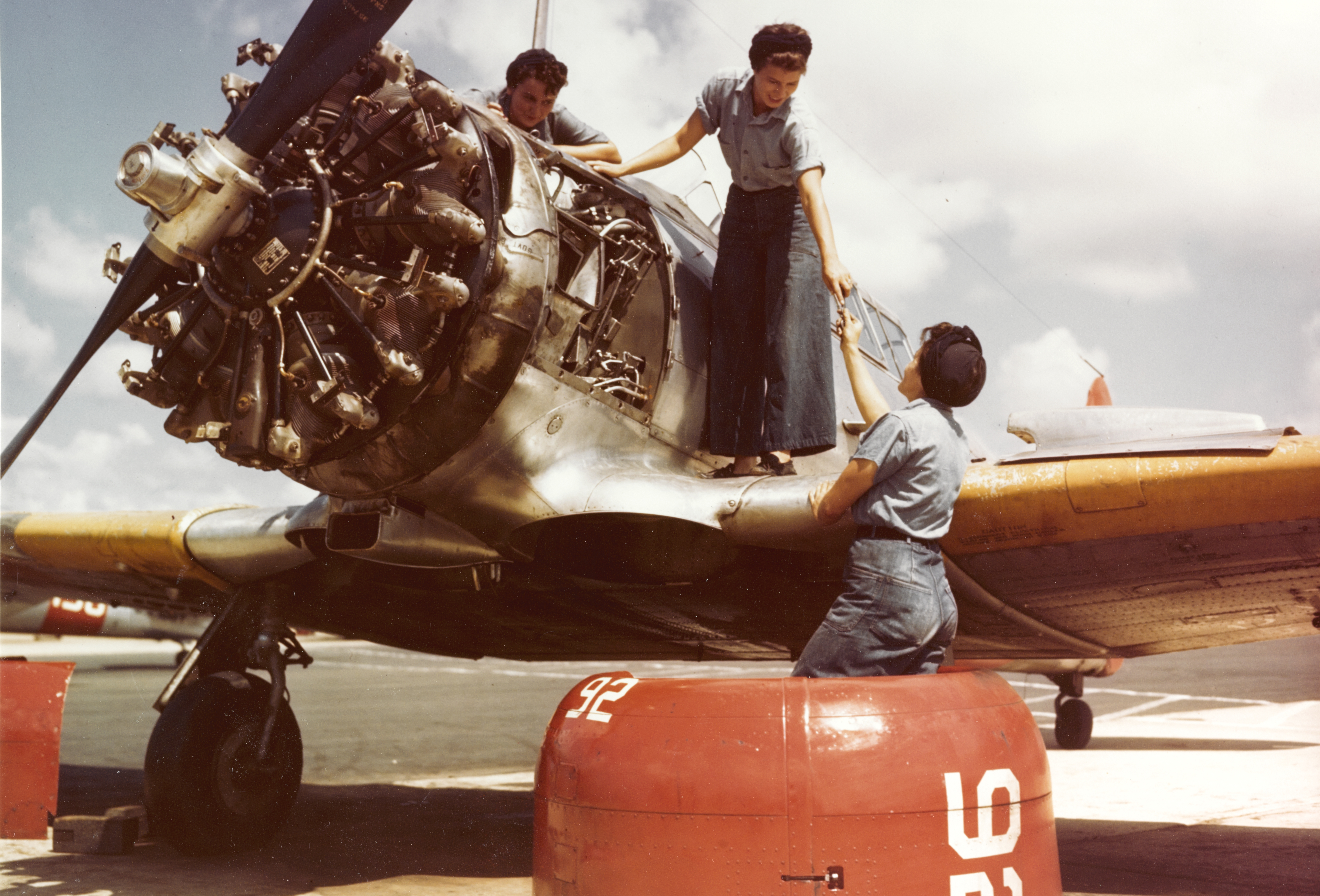 Three U.S. Navy WAVES aircraft mechanics working on a North American SNJ Texan training plane at Naval Auxiliary Air Station Whiting Field, Pensacola, Florida (USA), circa 1943-45. Note their dungaree uniforms, and the plane's Pratt & Whitney R-1340 "Wasp" radial engine.